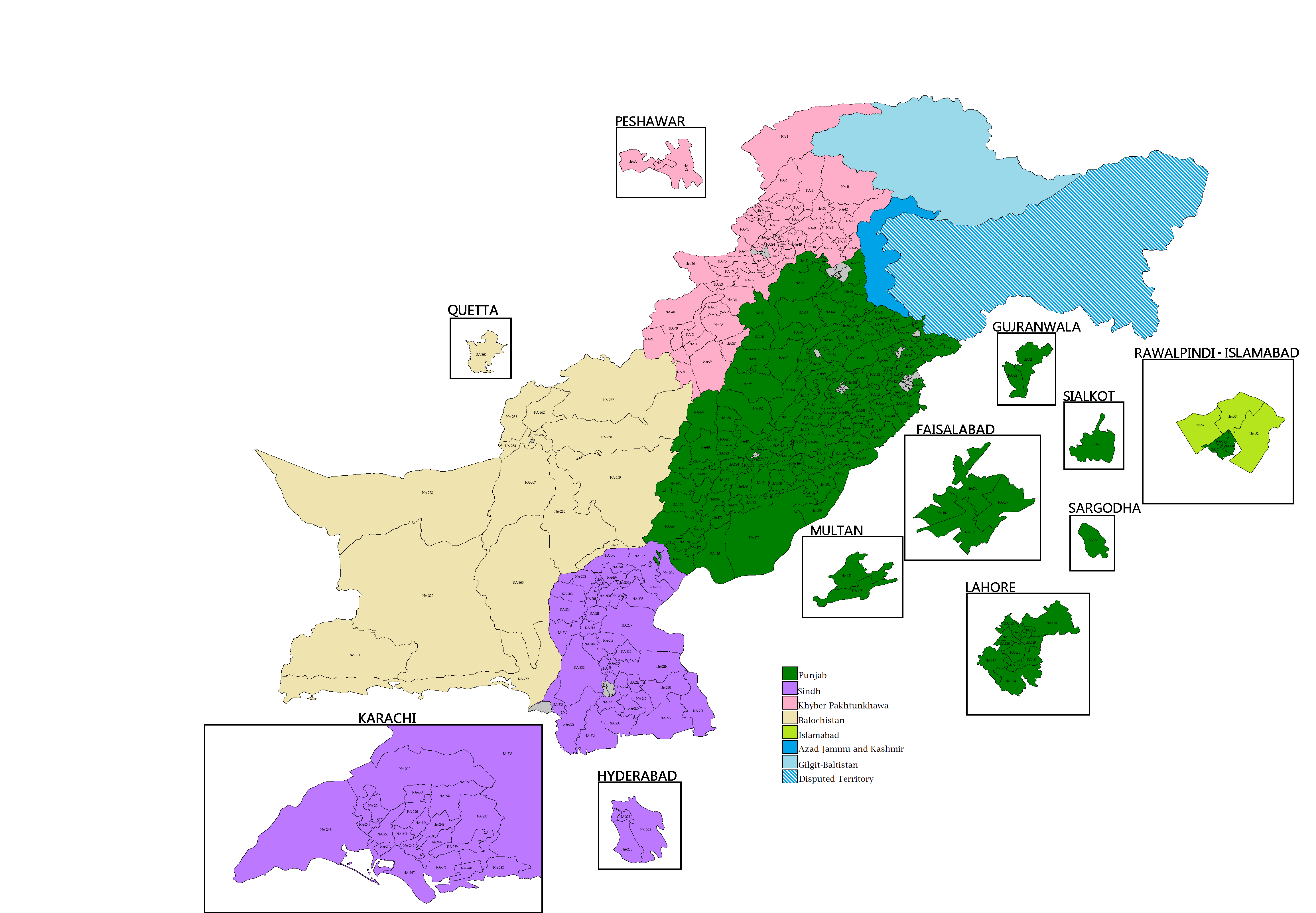 Map of Pakistan showing National Assembly Constituencies after 2018 Delimitation